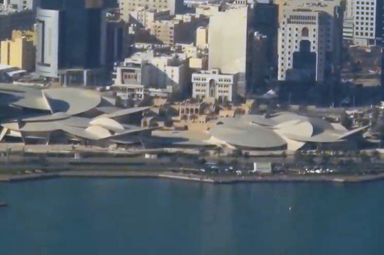 View of Doha seafront from a plane.